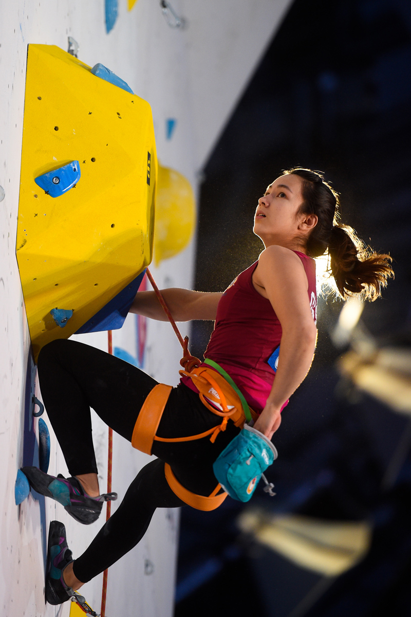 КАН Дарья (Россия). Скалолазание, трудность, женщины, полуфинал. III Зимние Всемирные военные игры. Дворец спорта "Большой", Сочи, Россия. 25 февраля 2017. Фото Viktor Berezkin/CISM2017KAN Daria (Russia). Sport Climbing, Lead, Women, Semifinal. 3rd CISM World Winter Games. Bolshoy Ice Dome, Sochi, Russian Federation. February 25, 2017. Photo by Viktor Berezkin/CISM2017